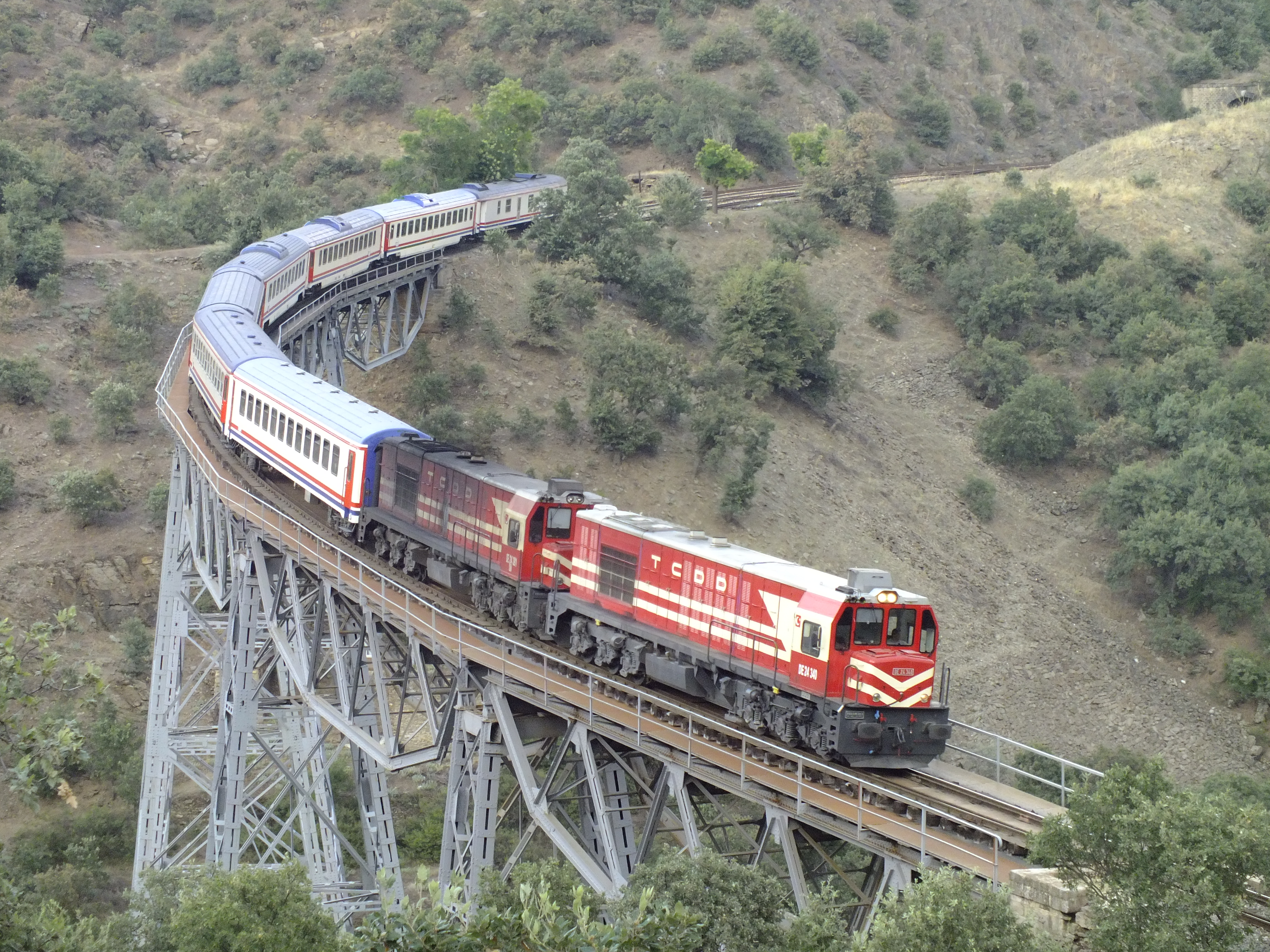 A westbound Regional train crossing Bridge 98 near Türkmentepe.